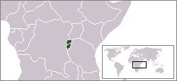 Location of Rwanda-Urundi